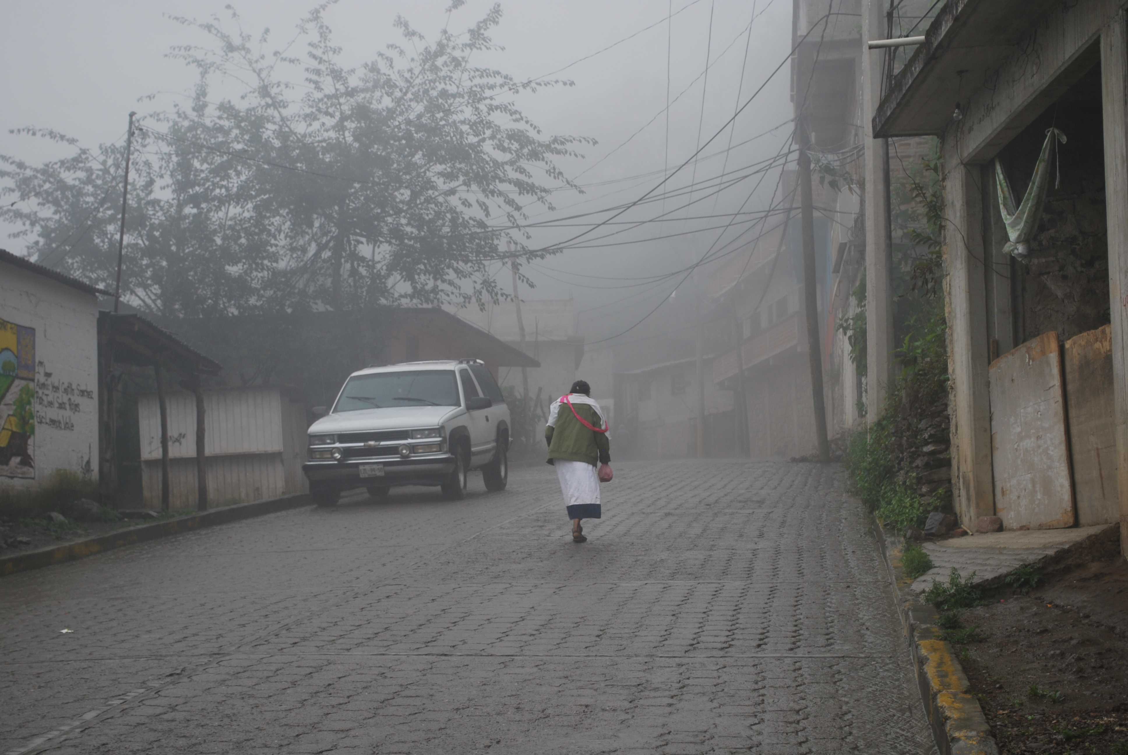 Street in rain in San Pablito, Pahuatlan, Puebla, Mexico